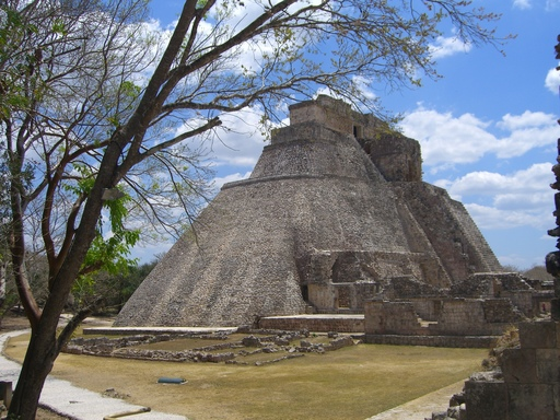 House of the Magician at Uxmal, Yucatán